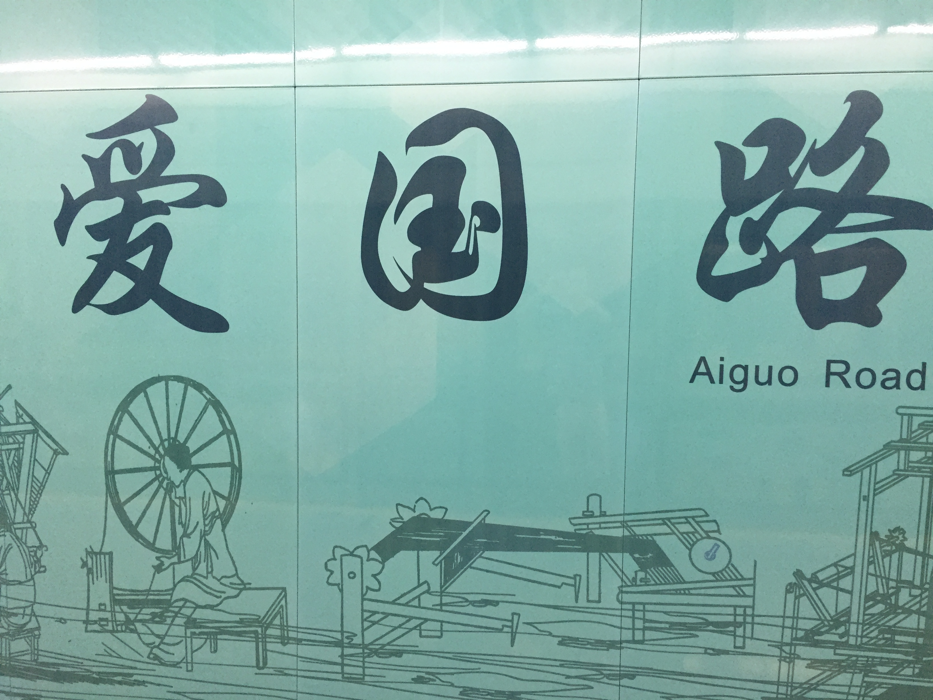 Name sign of Aiguo Road station of Shanghai Metro